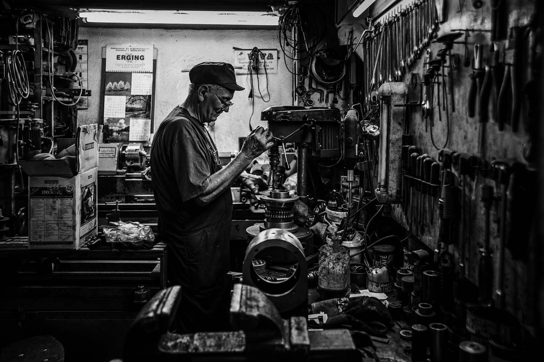 The Locksmithr